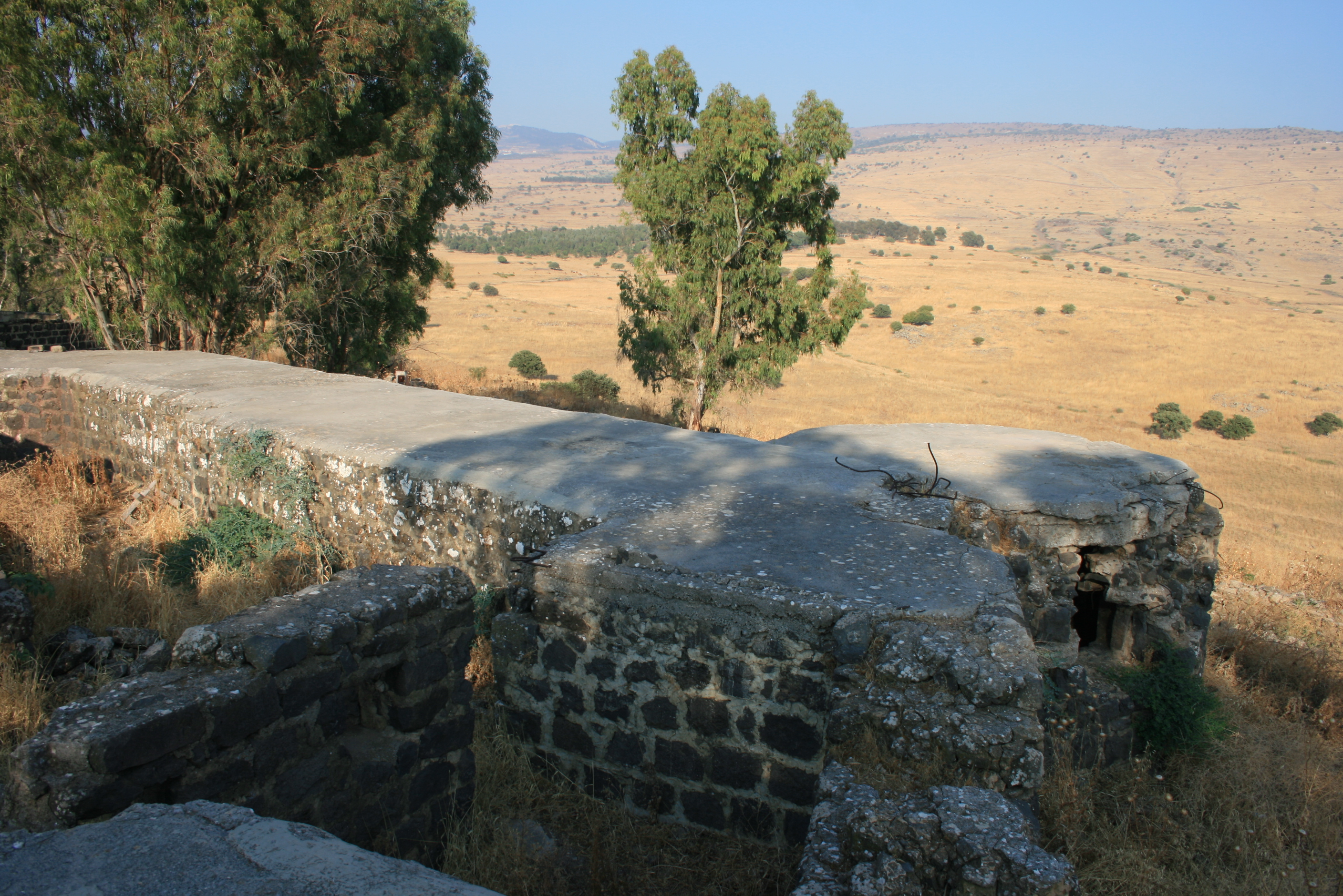 Tel Azaziat, The main fortifications.